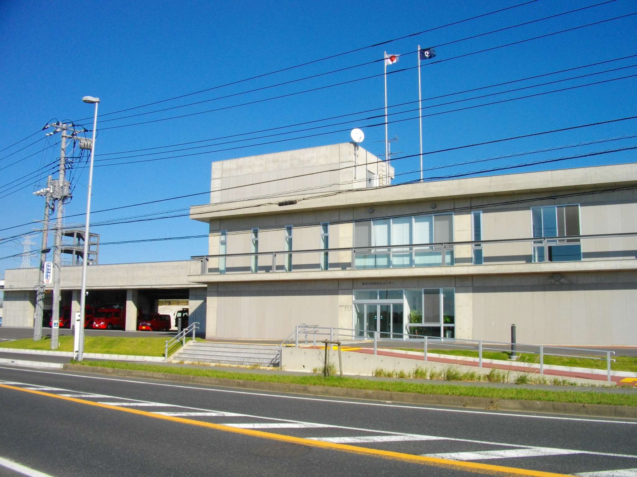 Futtsu City Firefighting & Disaster Control Center (Futtsu City Fire Department)